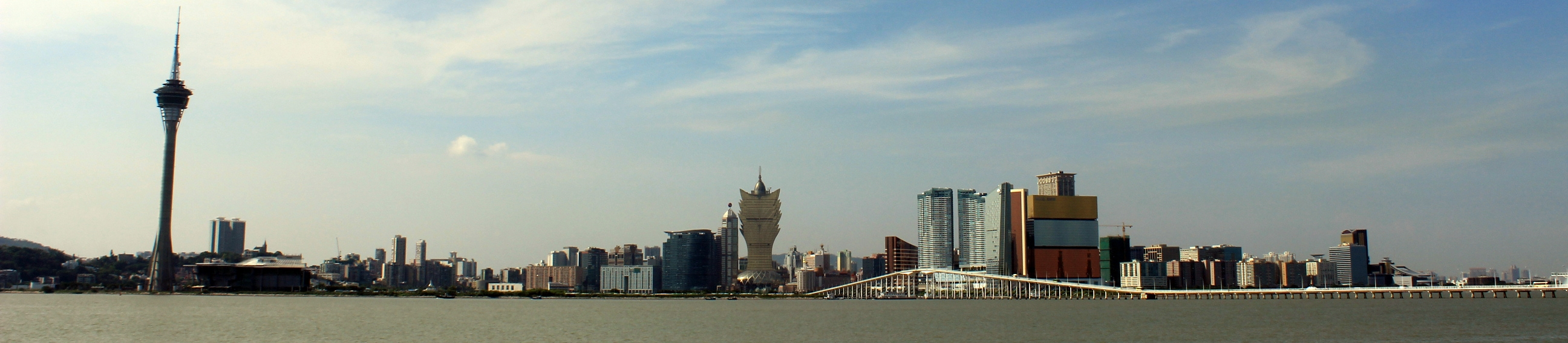 Macau skyline from Taipa 2013